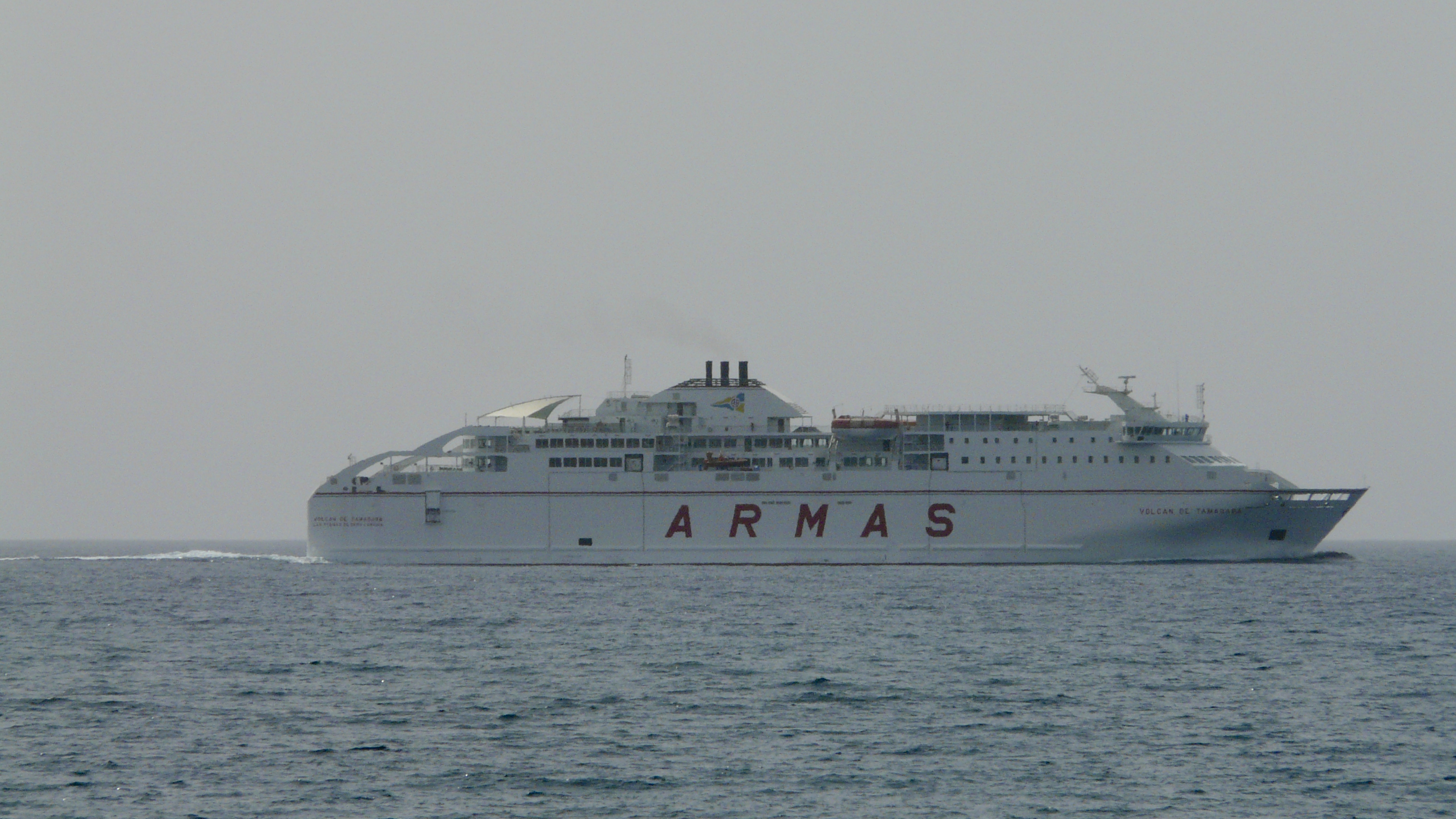 Armas Ferry